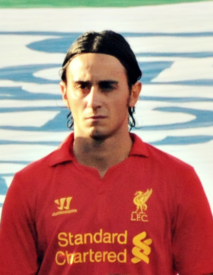 LFC vs Roma @ Fenway Park (Boston, Massachusetts)